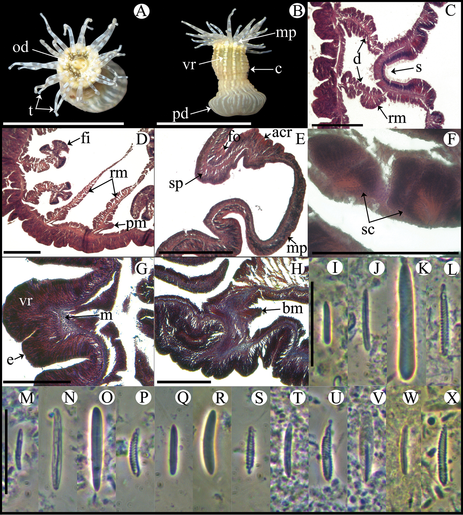 Anthopleura pallida. A Oral view B Lateral view C Detail of directives and siphonoglyph D Cross section through proximal column E Longitudinal section through margin showing acrorhagi and marginal sphincter muscle F Detail of spermatic cysts G Longitudinal section through distal column showing one verruca H Longitudinal section through base showing basilar muscles I–X Cnidae.– acrorhagi: I small basitrich J basitrich K holotrich L spirocyst; actinopharynx: M small basitrich N basitrich O microbasic b-mastigophore P spirocyst; column: Q small basitrich R basitrich S spirocyst; filament: T basitrich U spirocyst V microbasic p-mastigophore; tentacle: W basitrich X spirocyst. Abbreviations.– acr: acrorhagi, bm: basilar muscle, c: column, d: directives, fo: fosse, mp: marginal projection, od: oral disc, pd: pedal disc, pm: parietobasilar muscle, rm: retractor muscle, s: siphonoglyph, sc: spermatic cyst, sp: sphincter, t: tentacles, vr: verruca. Scale bars: A–B: 10 mm; C–H: 200 μm; I–X: 25 μm.